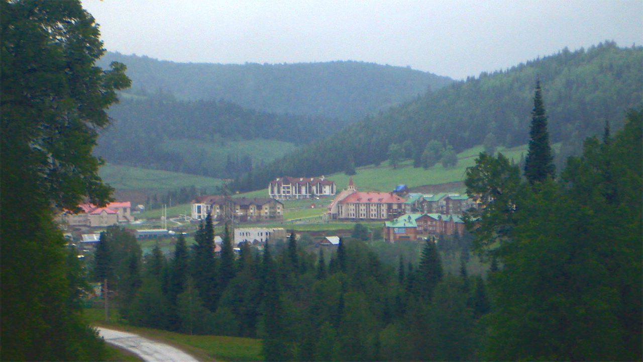 Assy, Bashkortostan, Russia